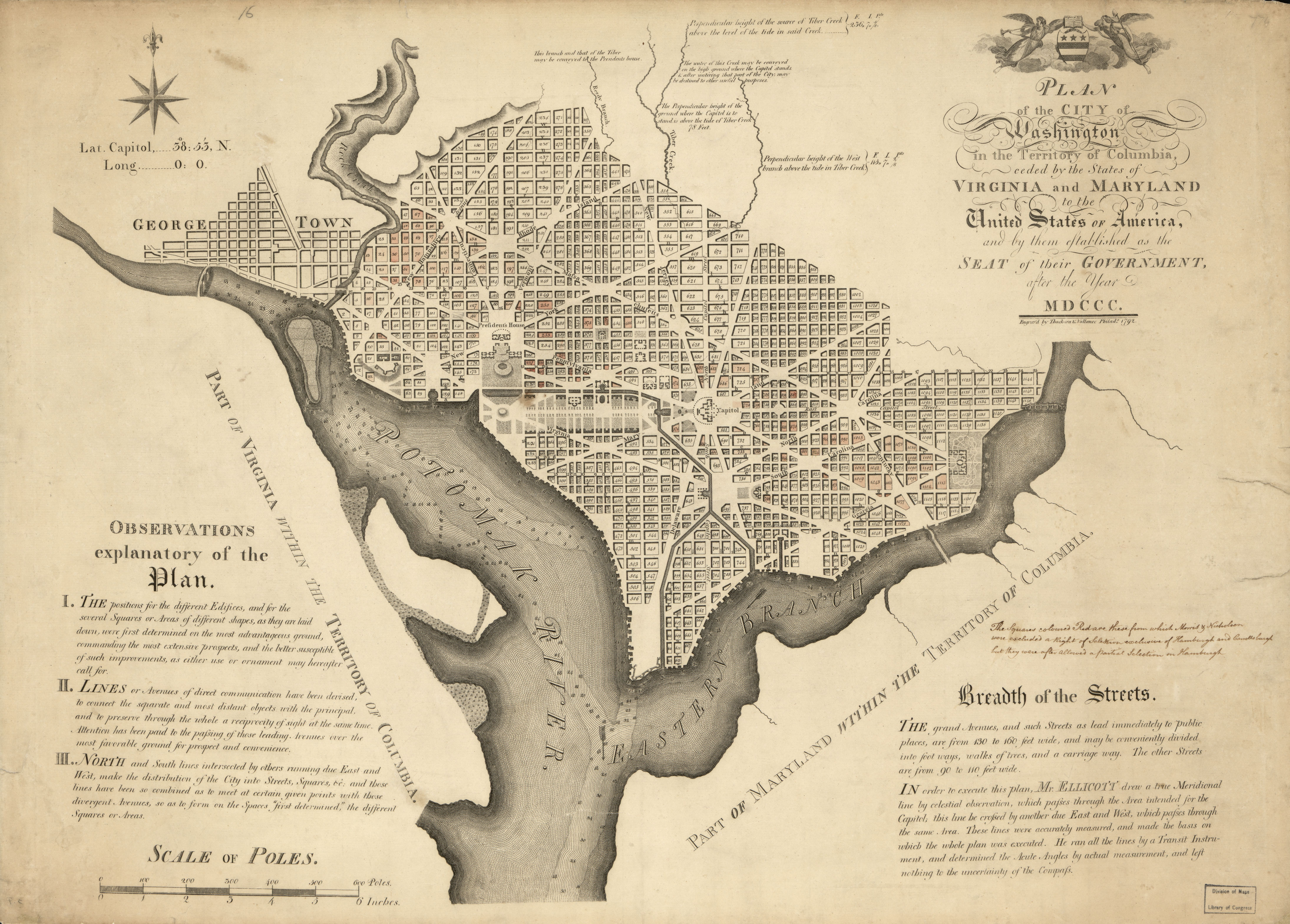 Shows block numbers and proposed government buildings. Relief shown by hachures. Depths shown by soundings. Also covers Georgetown. Includes text, notes, and coat-of-arms. Soiled, mounted on cloth backing, edged with artificial leather stripping, partially hand col., and annotated in ink: The squares coloured Red and these from which Morris & Nicholson were excluded a right of selection ... Hamburgh. Available also through the Library of Congress Web site as a raster image. Phillips. Washington, L279 Vault DCP